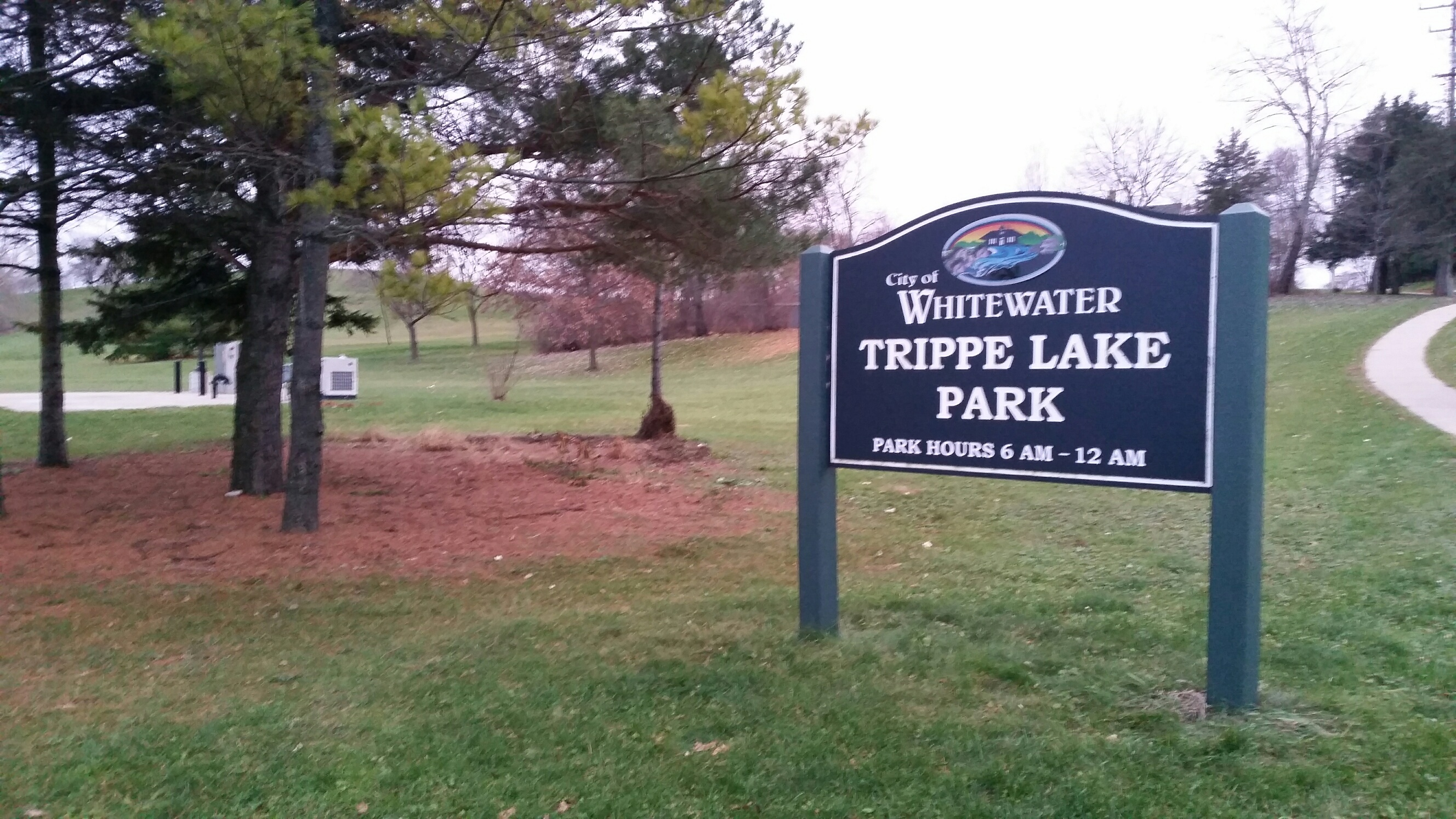 Trippe Lake